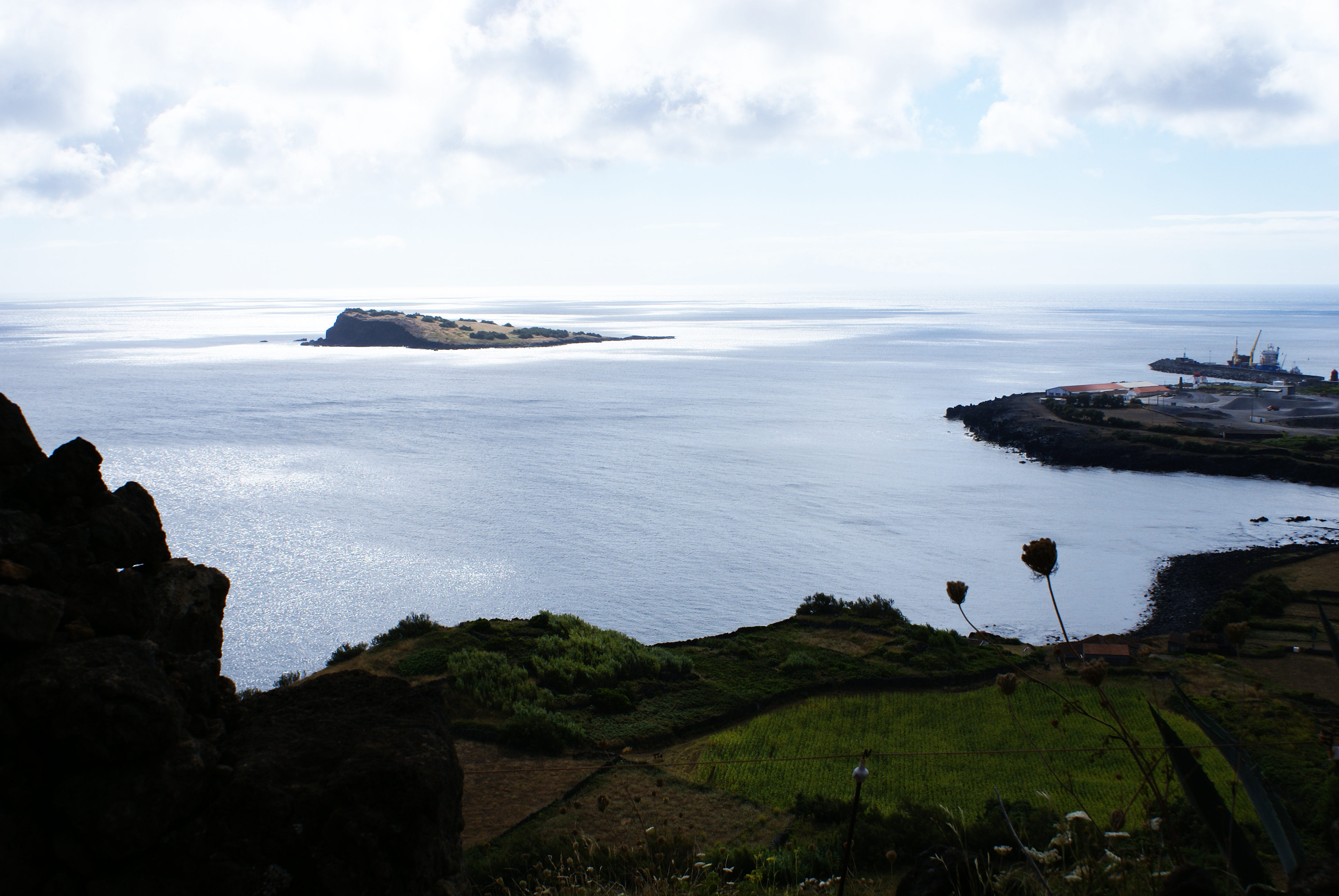 Lagoa bay with the Praia Islet in the distance, island of Graciosa, Azores